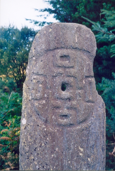 Cloch Aonach, Gleann Cholm Cille. Cloch Aonach(the meeting stone)in Gleann Cholm Cille.